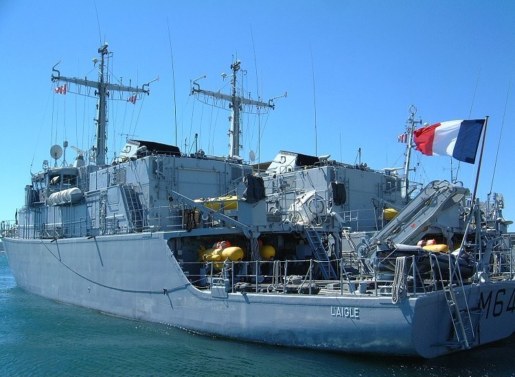 French Navy mine-hunters in Toulon Naval Base